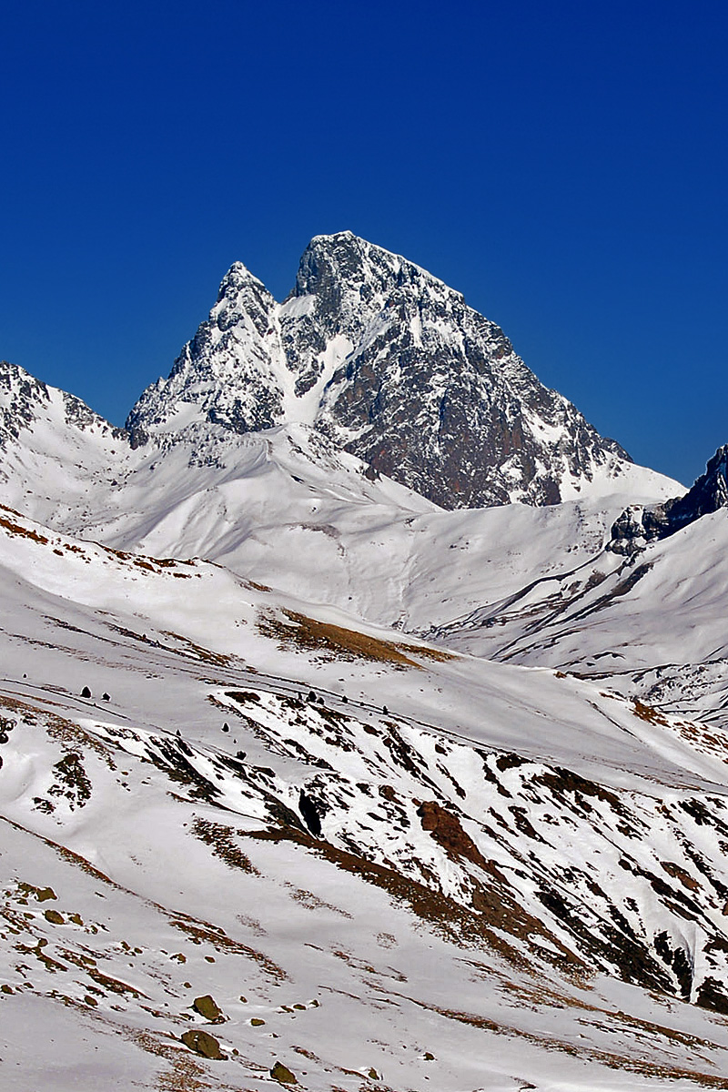 A view of The Midi d'Ossau Peak from El Portalet Valley in the Ski area of Formigal, Huesca, Spain.